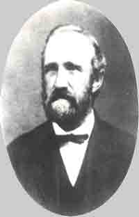 O.V. Bruun, founder of Kjøbenhavns Forstæders Sporveisselskab